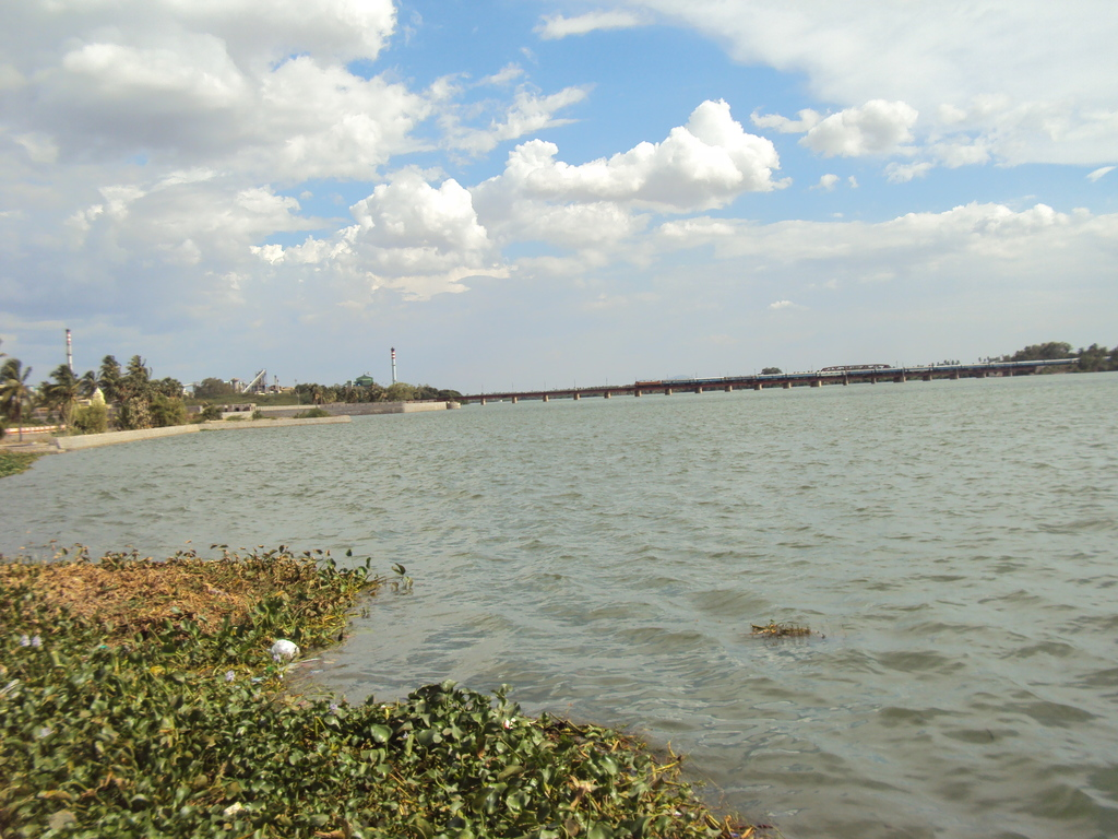 River cauvery view with railway bridge and full water like sea.